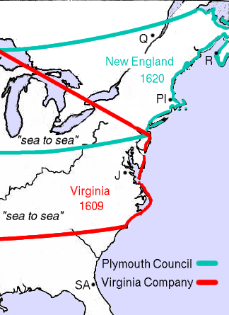 The image represents a map of the eastern coast of the United States of America of today; the extension of the rights granted to the Virginia Company by the Plymouth Council. Those rights are widely known as "from sea to sea."